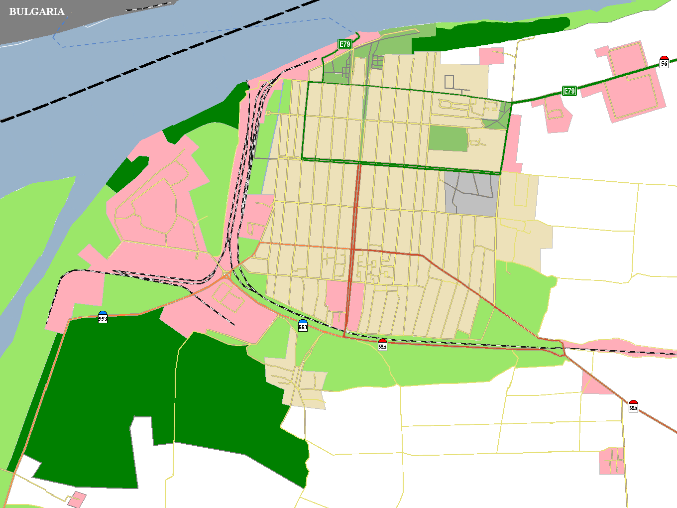 Map of Calafat , Romania